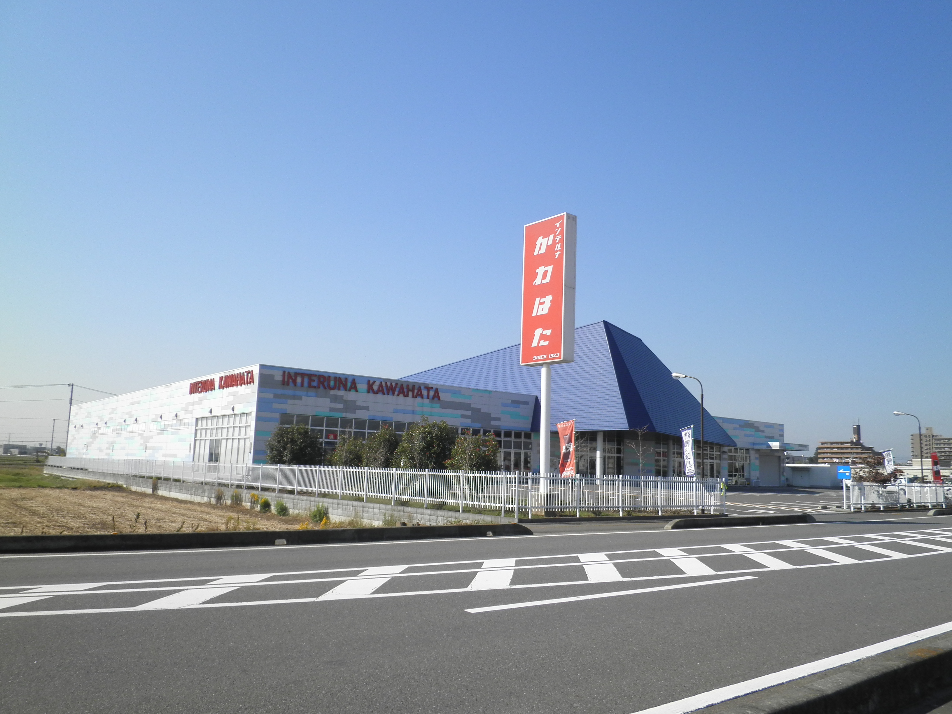 KAWAHATA Inc. Headquarters in Saitama, Japan.